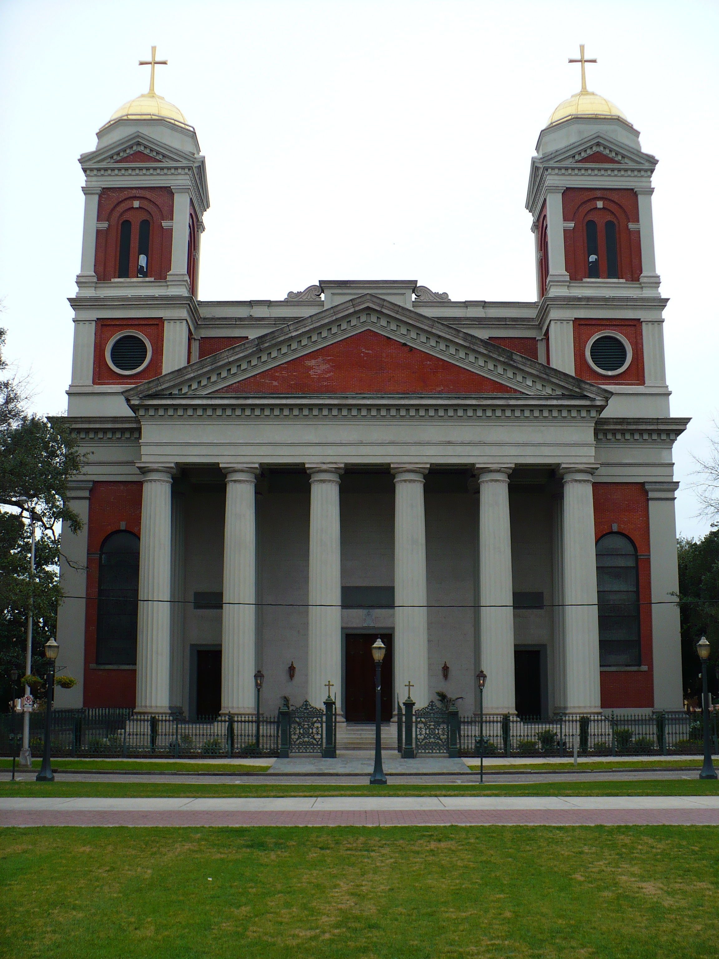 Cathedral-Basilica of Immaculate Conception in Mobile, Alabama.